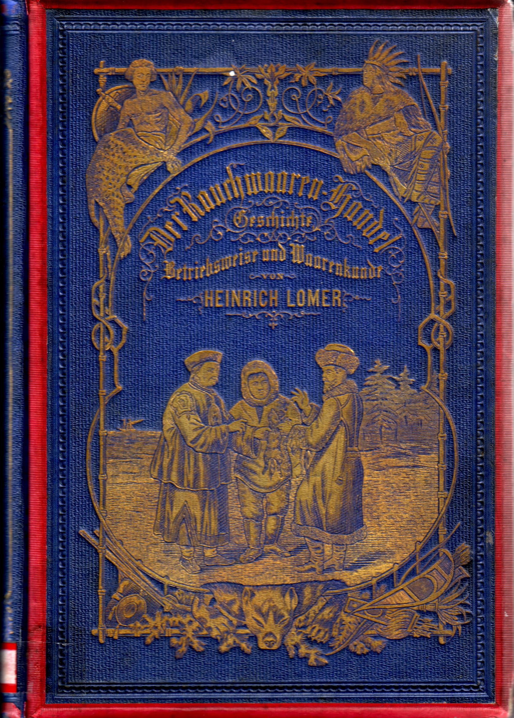 History of fur trade.